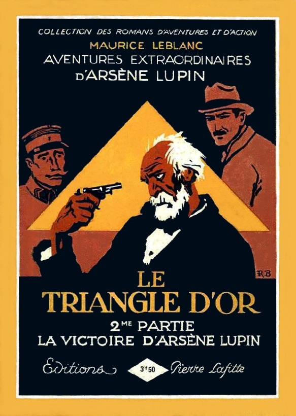 Illustrations from the book, Le Triangle d'Or (about Arsène Lupin), written by Maurice Leblanc, illustrated by unknown author.